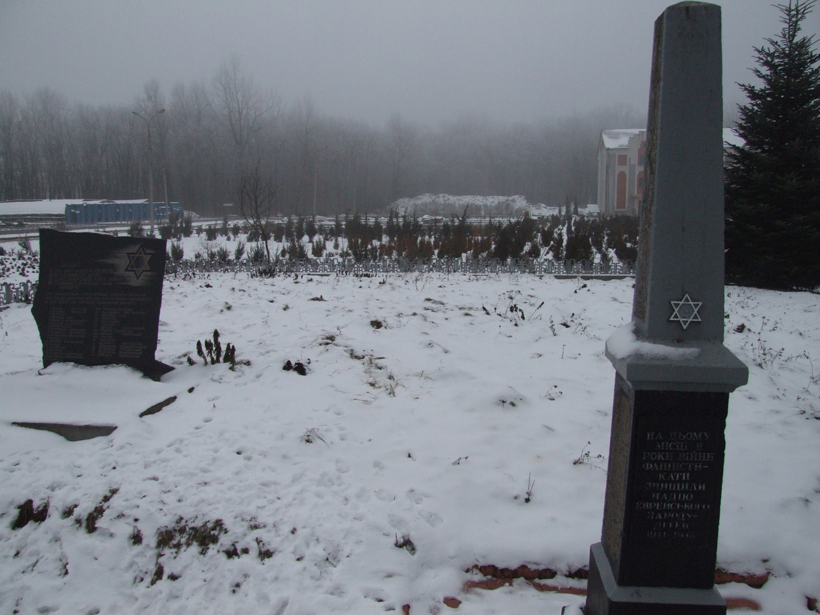 Monuments for Jewish children (right in the picture) and Jews from different towns and villages in Vinnytsya oblast killed by Germans during the occupation of Soviet Union in Second World War. The monuments are located one a mass grave nowadays on the territory of "Vinnytsyazelenbud" in ulica Maksymovicha 24, in the city of Vinnytsya (Ukraine).